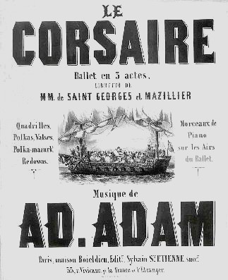 Cover for the piano reduction of excerpts from Adolphe Adam's (1803-1856) score for the ballet Le Corsaire, which premiered at the Théâtre de l´Impérial de l´Opéra, Paris, 1856.